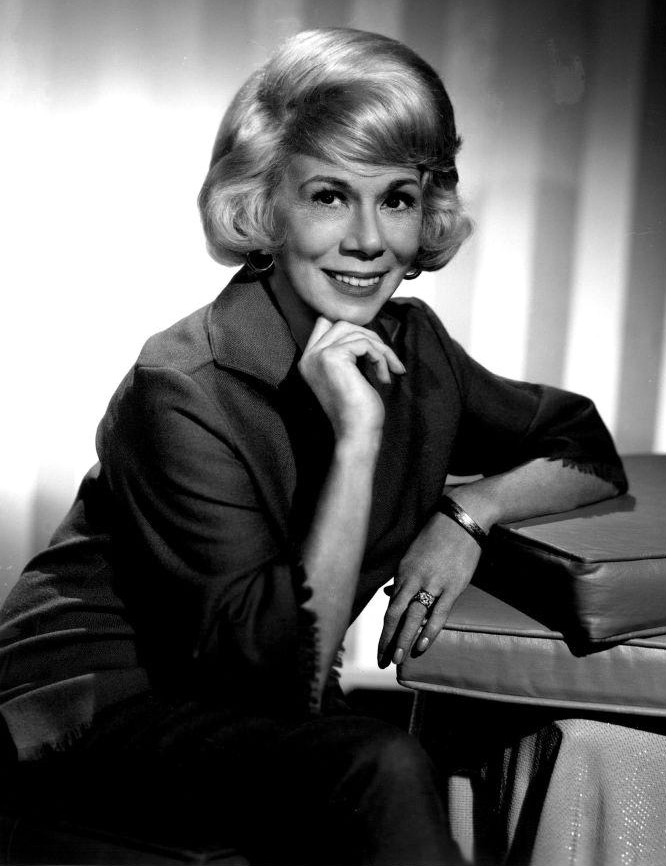 Publicity photo of Bea Benadaret.